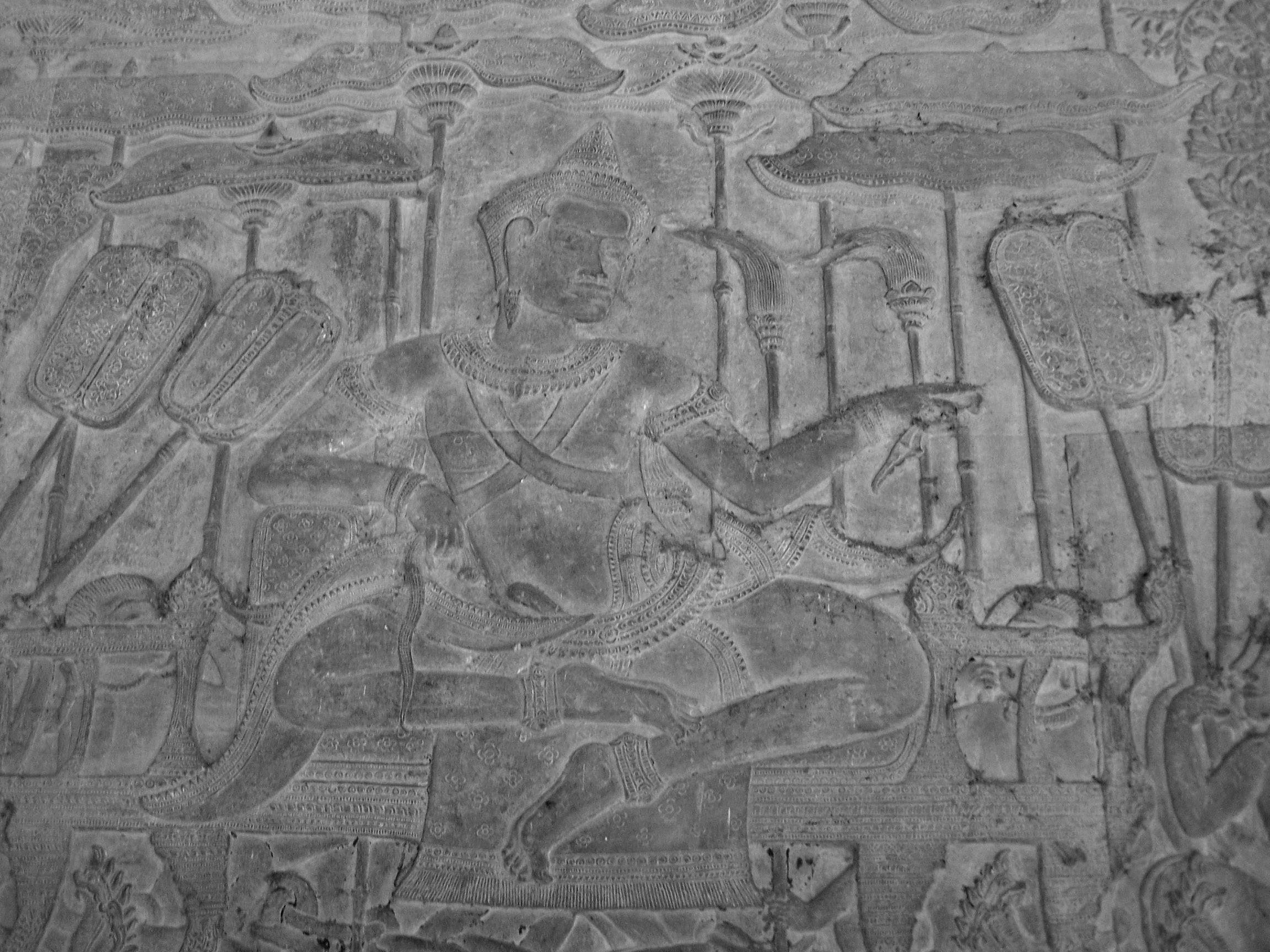 Suryavarman II in procession, Angkor Wat